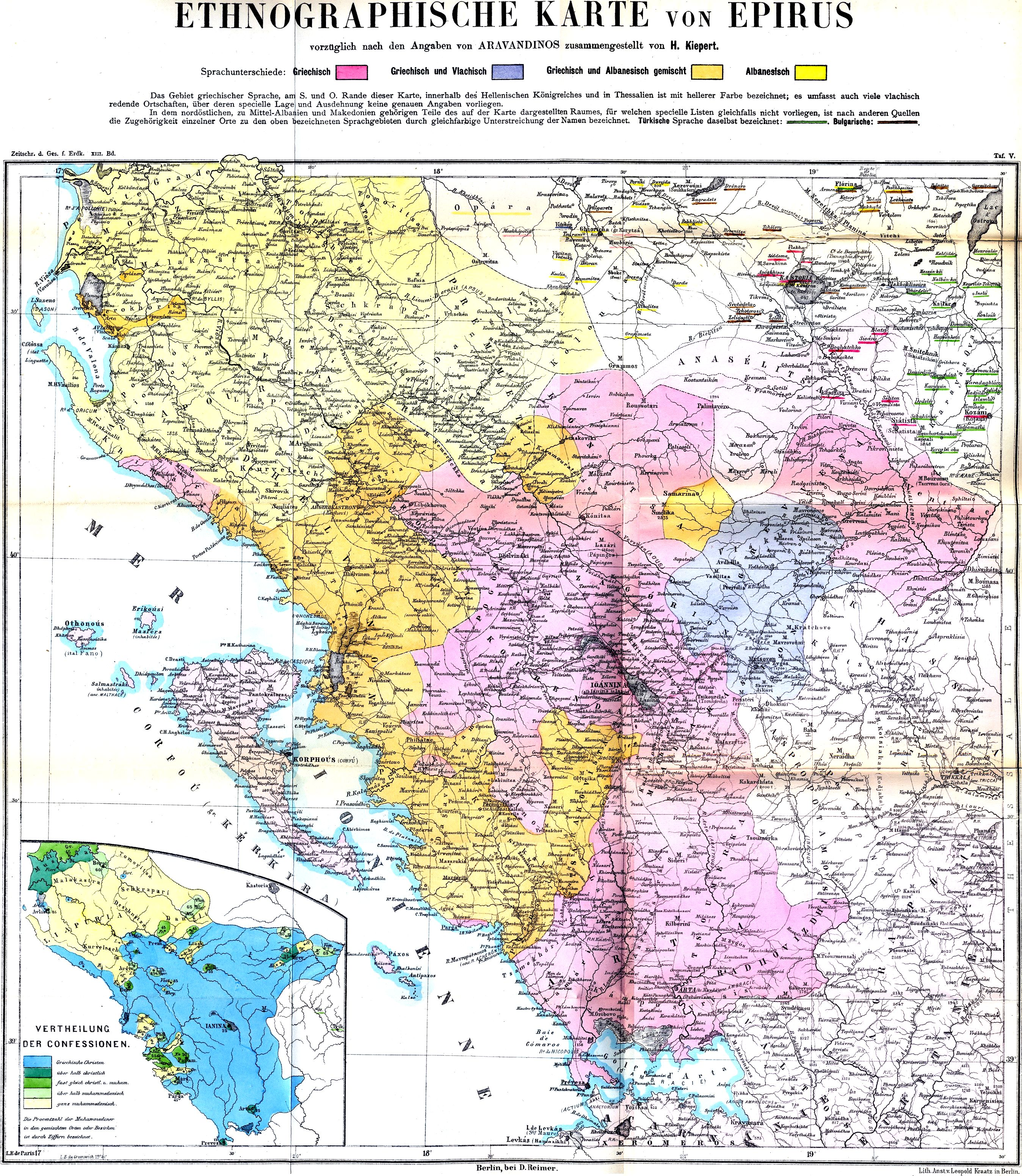 Ethnic map of the Epirus region according to the informations delivered by the Greek ethnographer P.Aravandinos